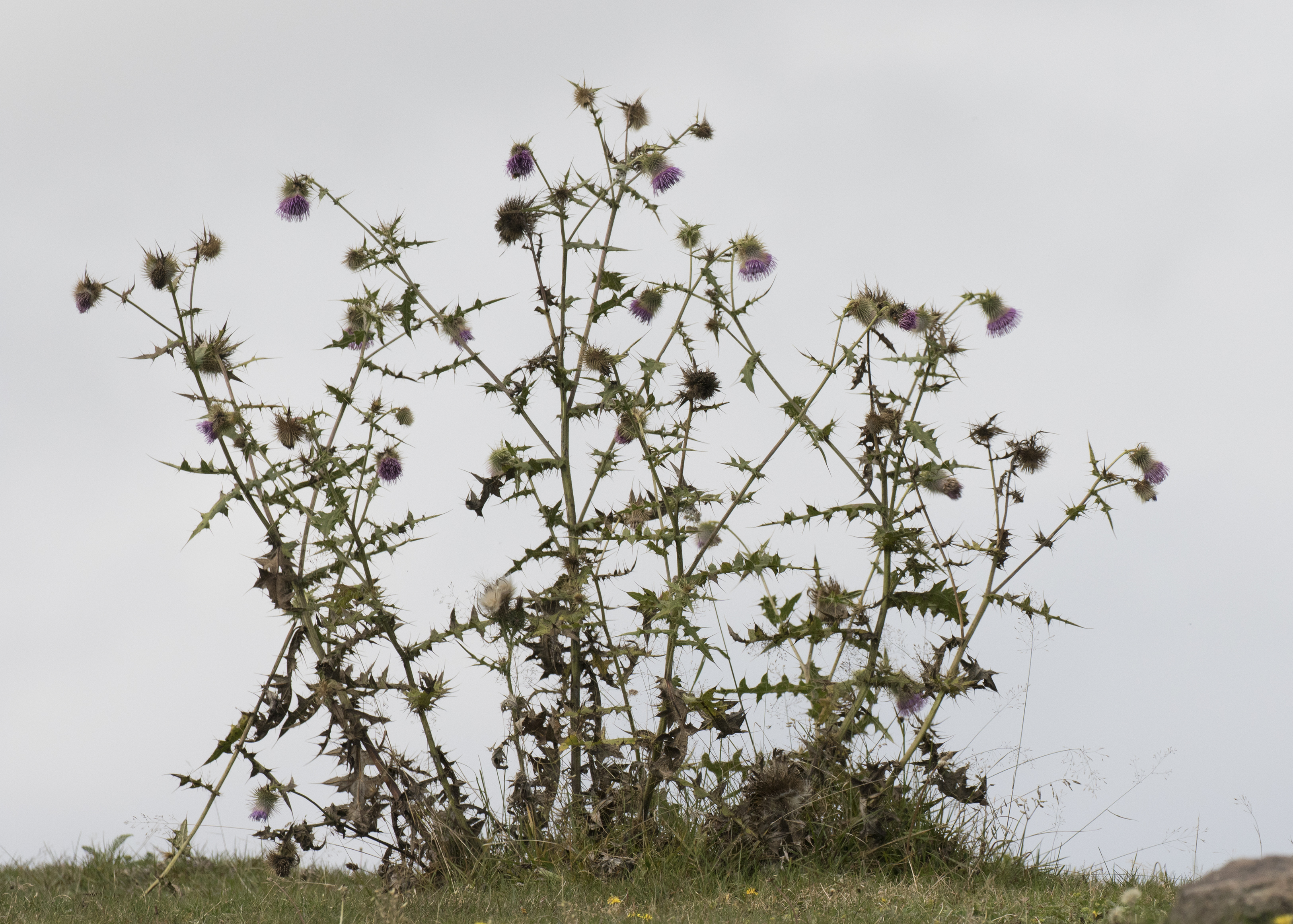 Cirsium osseticum in Kümbet Highland, Dereli - Giresun, Turkey.